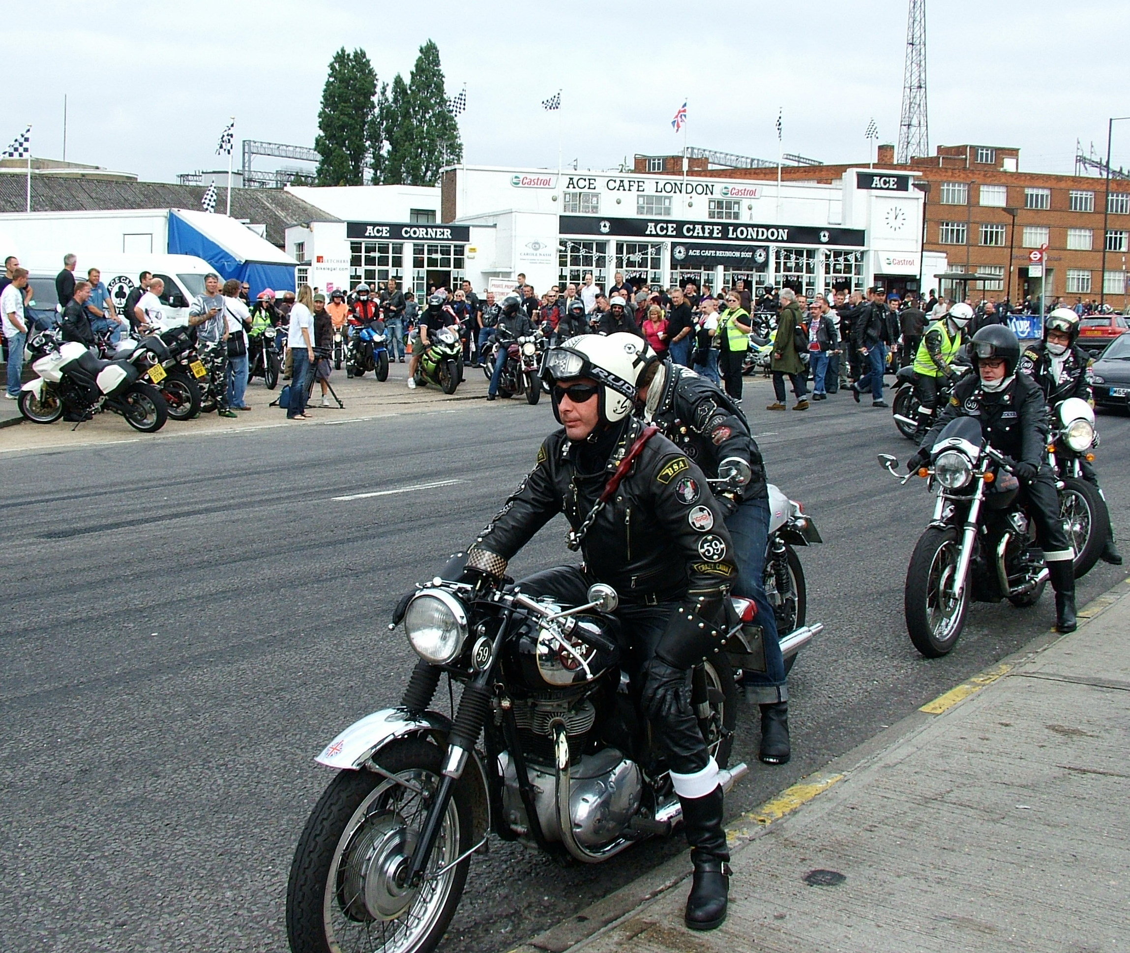 BSA rider at 2007 Ace Cafe reunion (the second bike (mostly hidden) is a Kawasaki W650 and the 3rd bike in line is a Moto Guzzi).